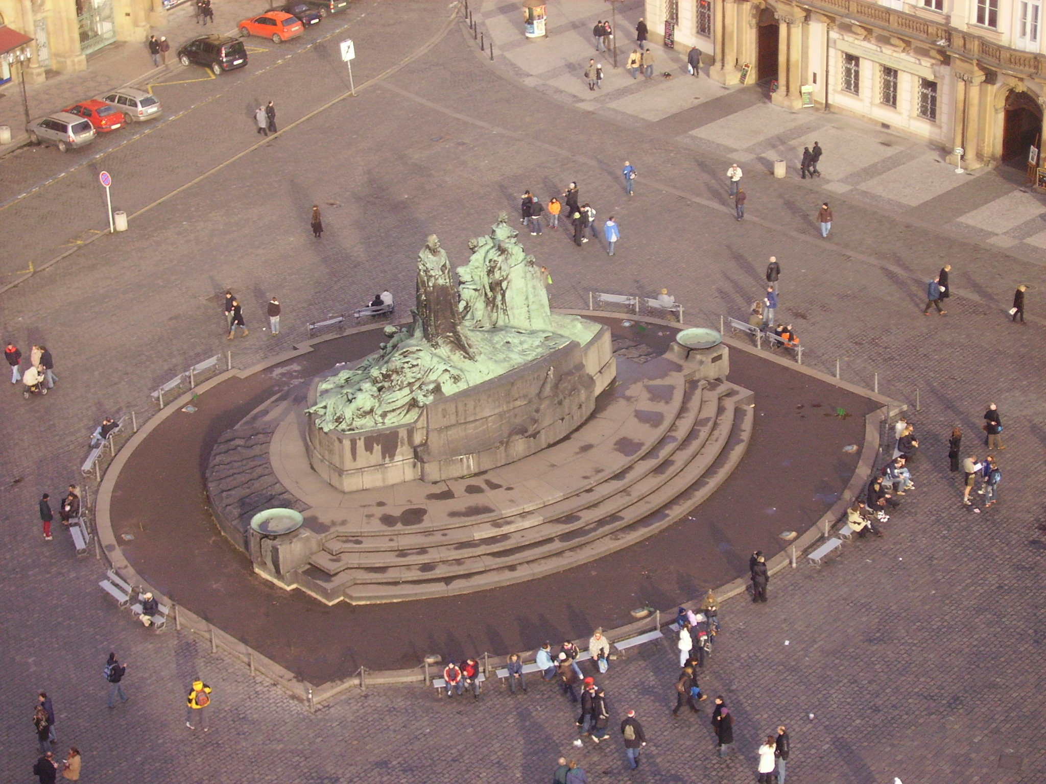 View from the Tower of the Old Town Town Hall to the Old Town Square, Prague